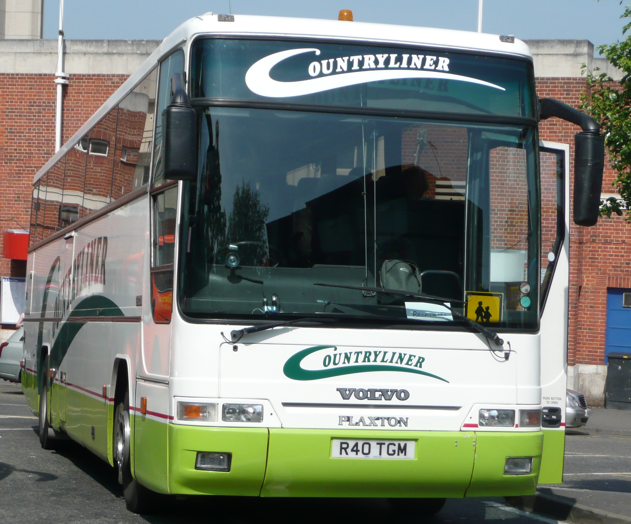 Countryliner Coaches Plaxton/Volvo B10M coach (R40 TGM) on rail replacement duties.